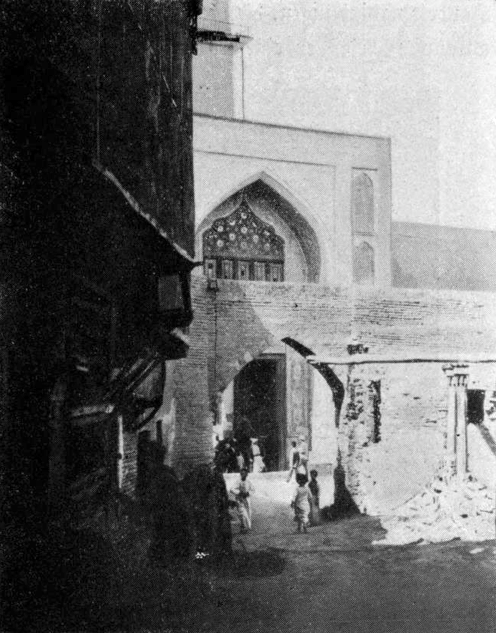 Al-Kadhimiya Mosque in Baghdad, Iraq